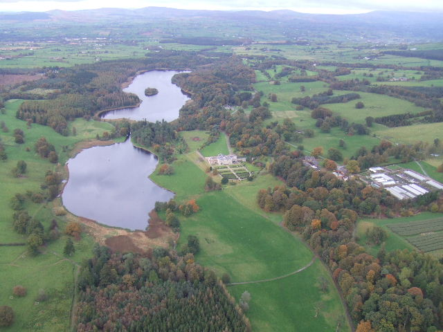 Baronscourt Estate, nr Newtown Stewart Baronscourt Estate, showing the Duke of Abercorn's house, lawns, lakes and surrounding forests. Newtown Stewart is visible to the extreme top right.